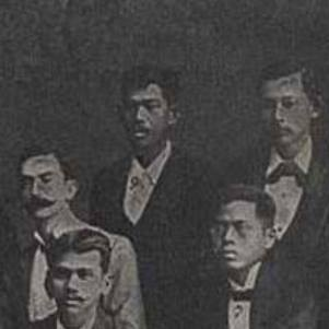 Cropped image of the Hong Kong Junta with Brigadier General Salvador Estrella in center.